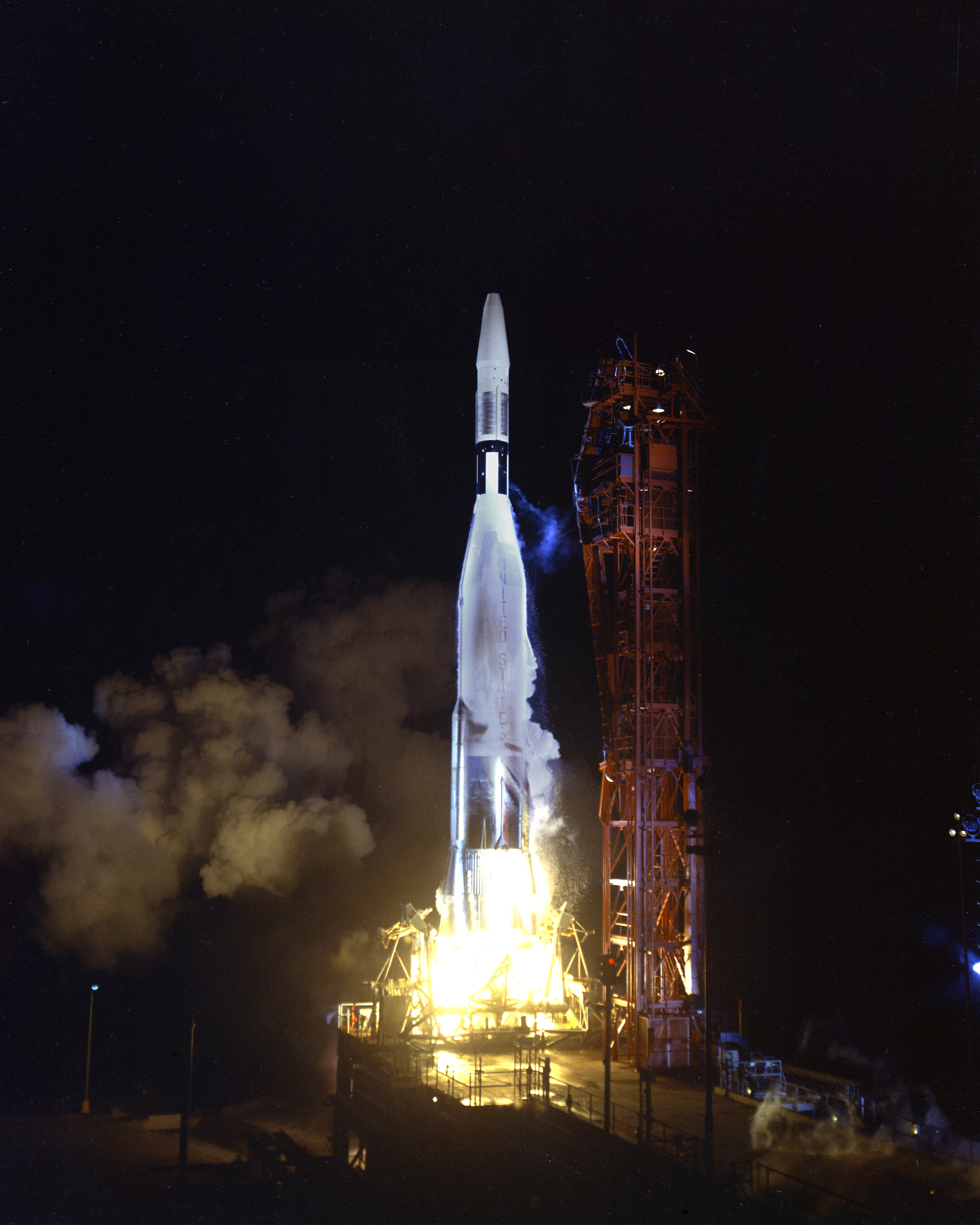 AUGUST 23, 1961 LAUNCH OF NASA AGENA RANGER 1 FROM PAD 12.